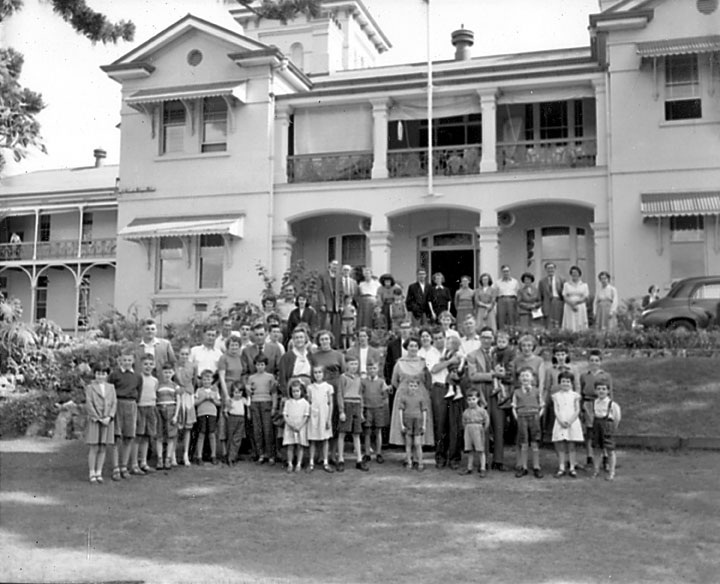 Migrants grouped on the lawn at Yungaba Immigration Centre, 24 June 1958